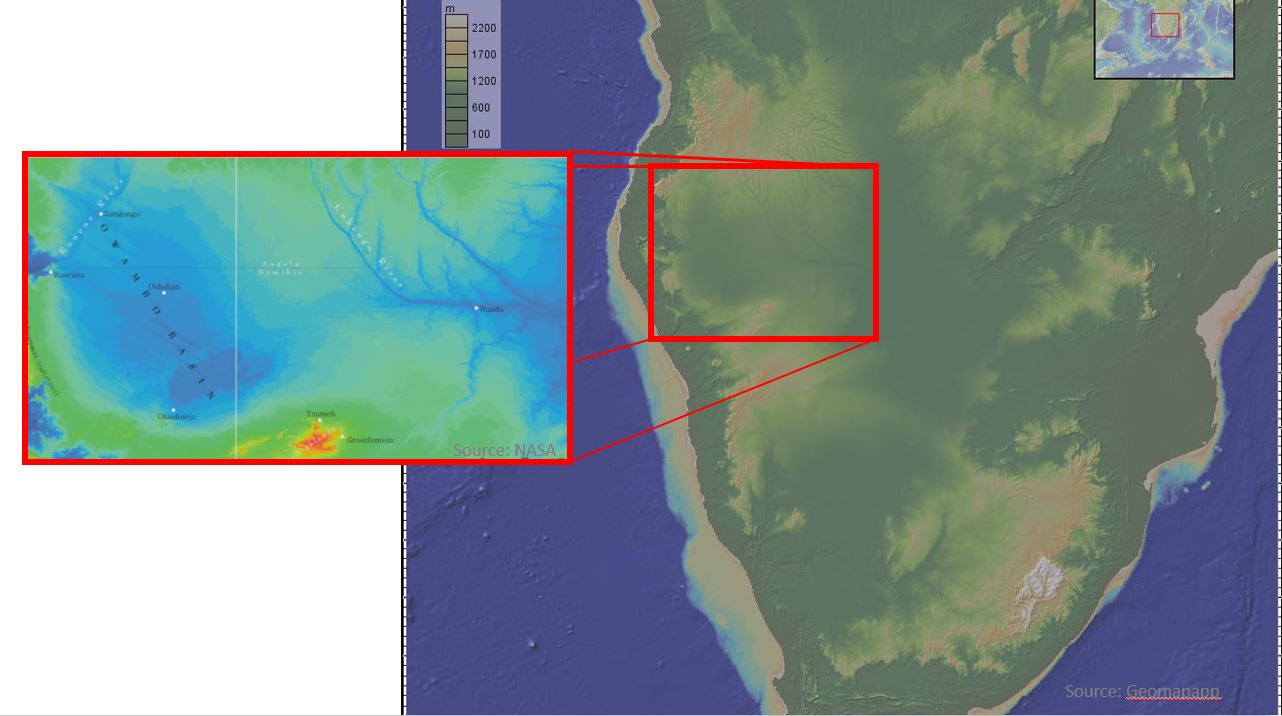 Image 1:Topographical map of the Owambo Basin merging a NASA image with geomapapp freeware